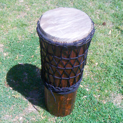 quality handmade pine stave ashiko drum